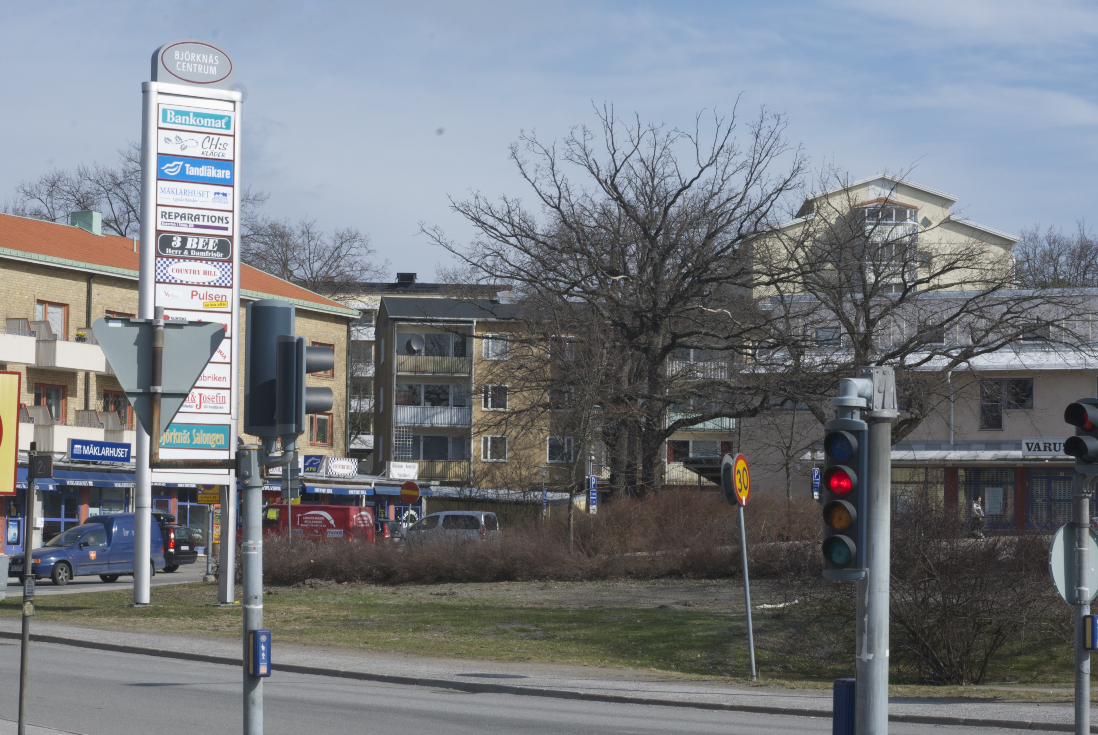 Björknäs centrum